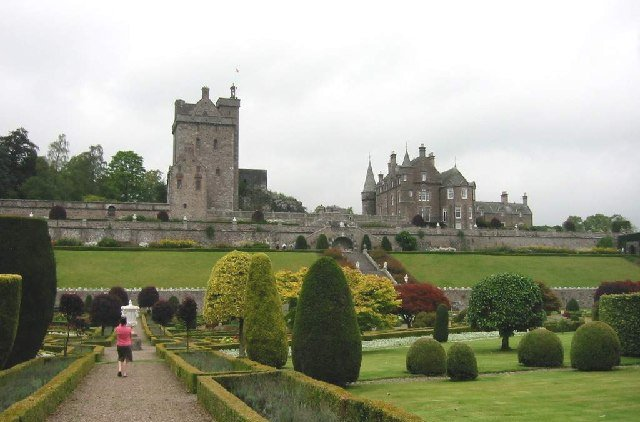 Drummond Castle & Gardens, near Crieff